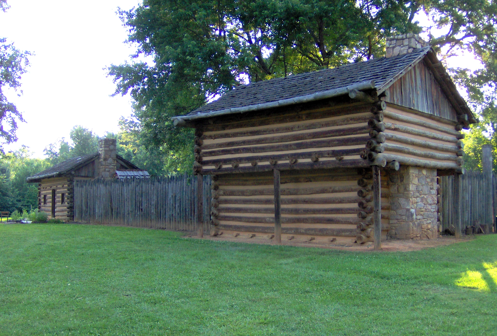 The Fort Watauga reconstruction at Sycamore Shoals State Historic Park in the U.S. state of Tennessee. The original fort was built in the mid-1770s to protect the Watauga settlers from Cherokee attacks. The fort was reconstructed in the 1970s based on archaeological evidence and the design of contemporary Appalachian frontier forts.